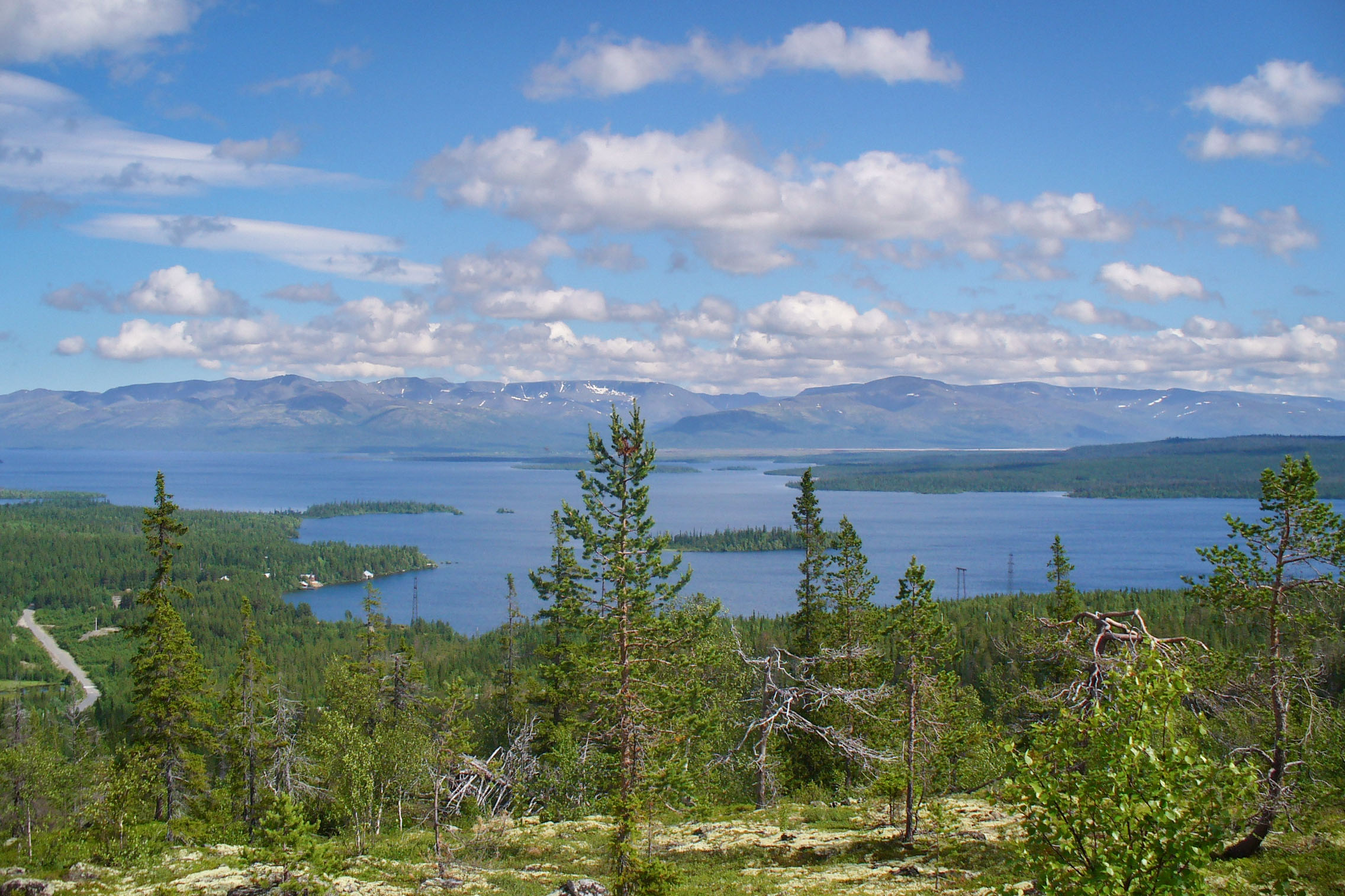 Taiga forest (ecoregion) habitat — with view of Lake Imandra and the Chibiny Mountains. Located in Murmansk Oblast, Northwest European Russia.